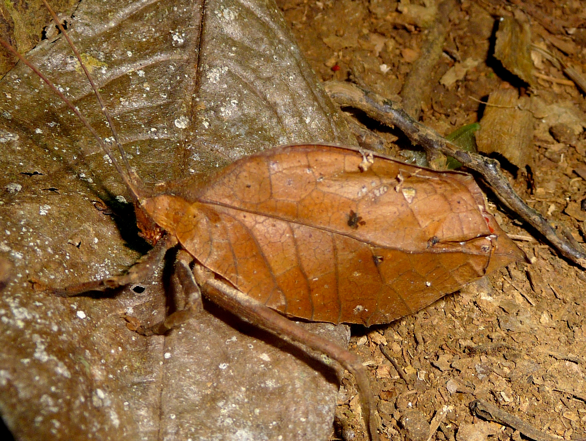 Dead leaf Katydid (Orophus tesselatus) ? subfamily Phaneropterinae